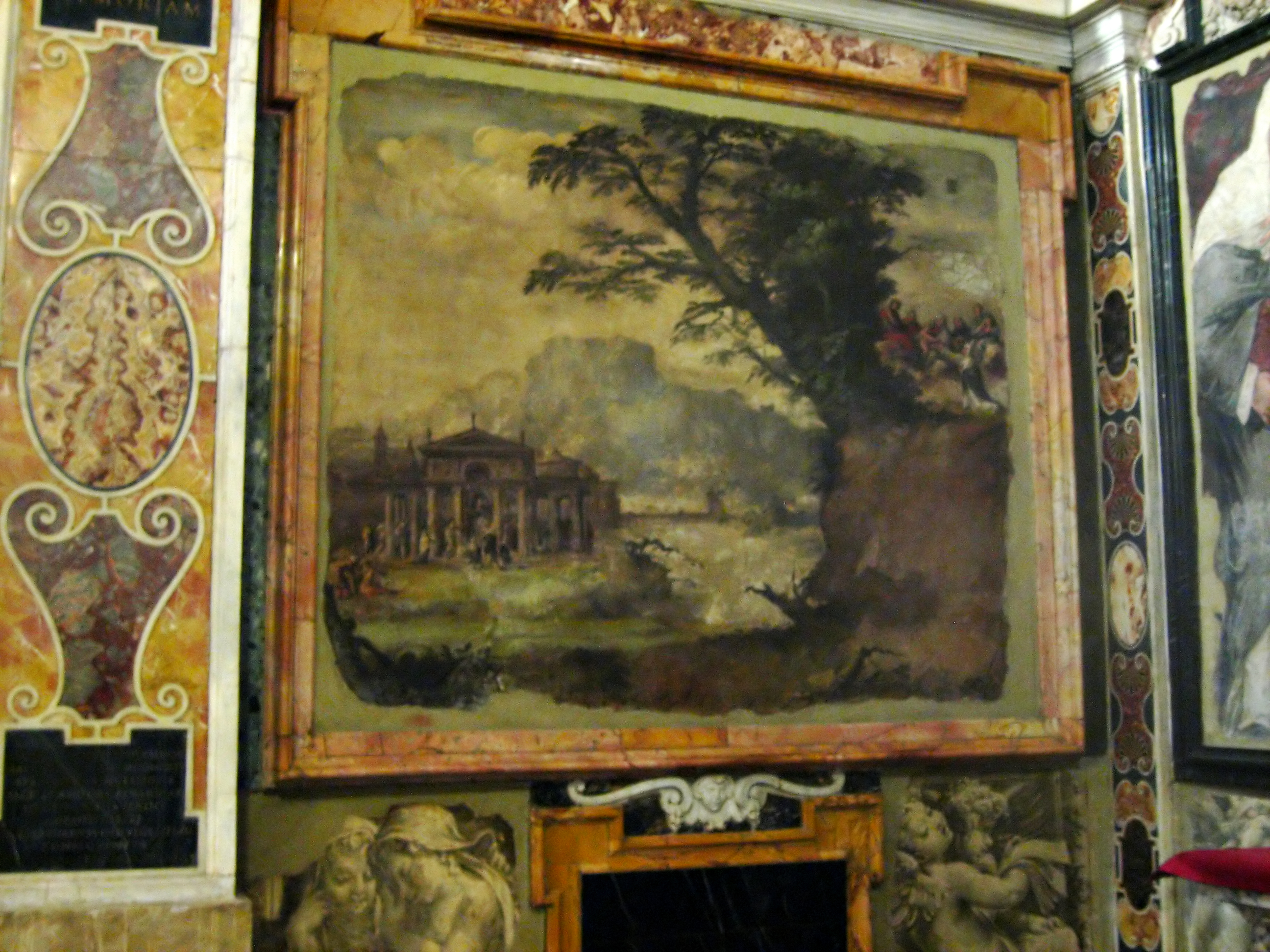 From c.1525, by Polidoro da Caravaggio and Maturino da Firenze, in S. Silvestro al Quirinale. Possibly a scene from the life of St Catherine of Siena.